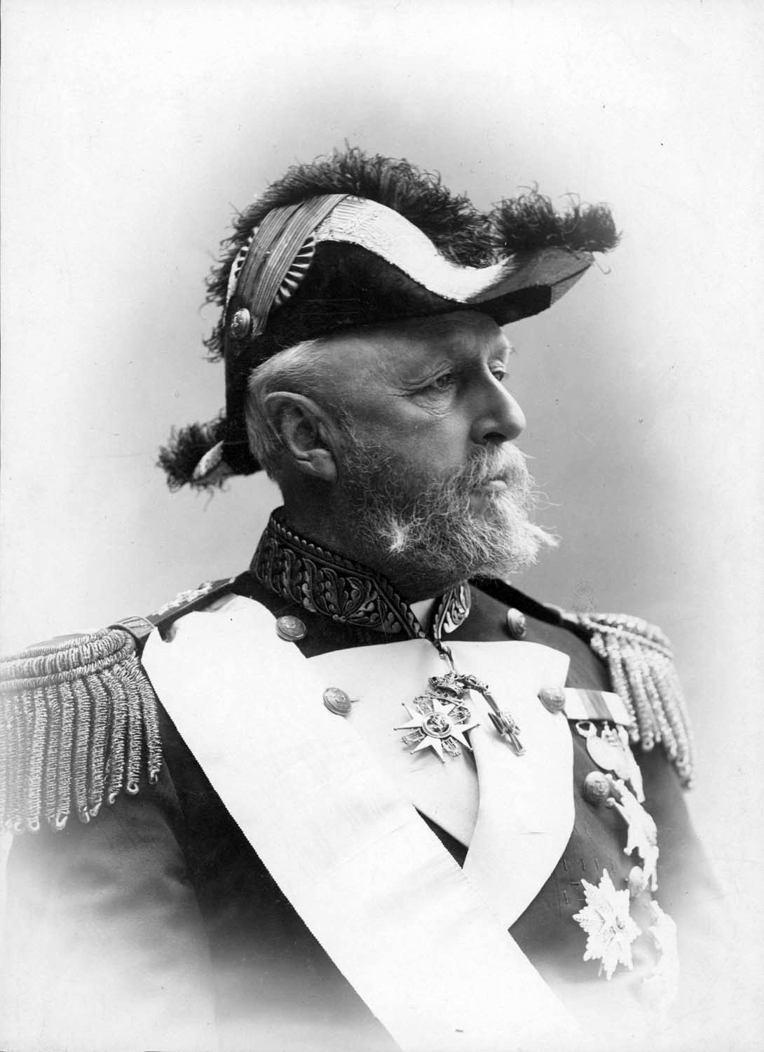 King Oscar II of Sweden.